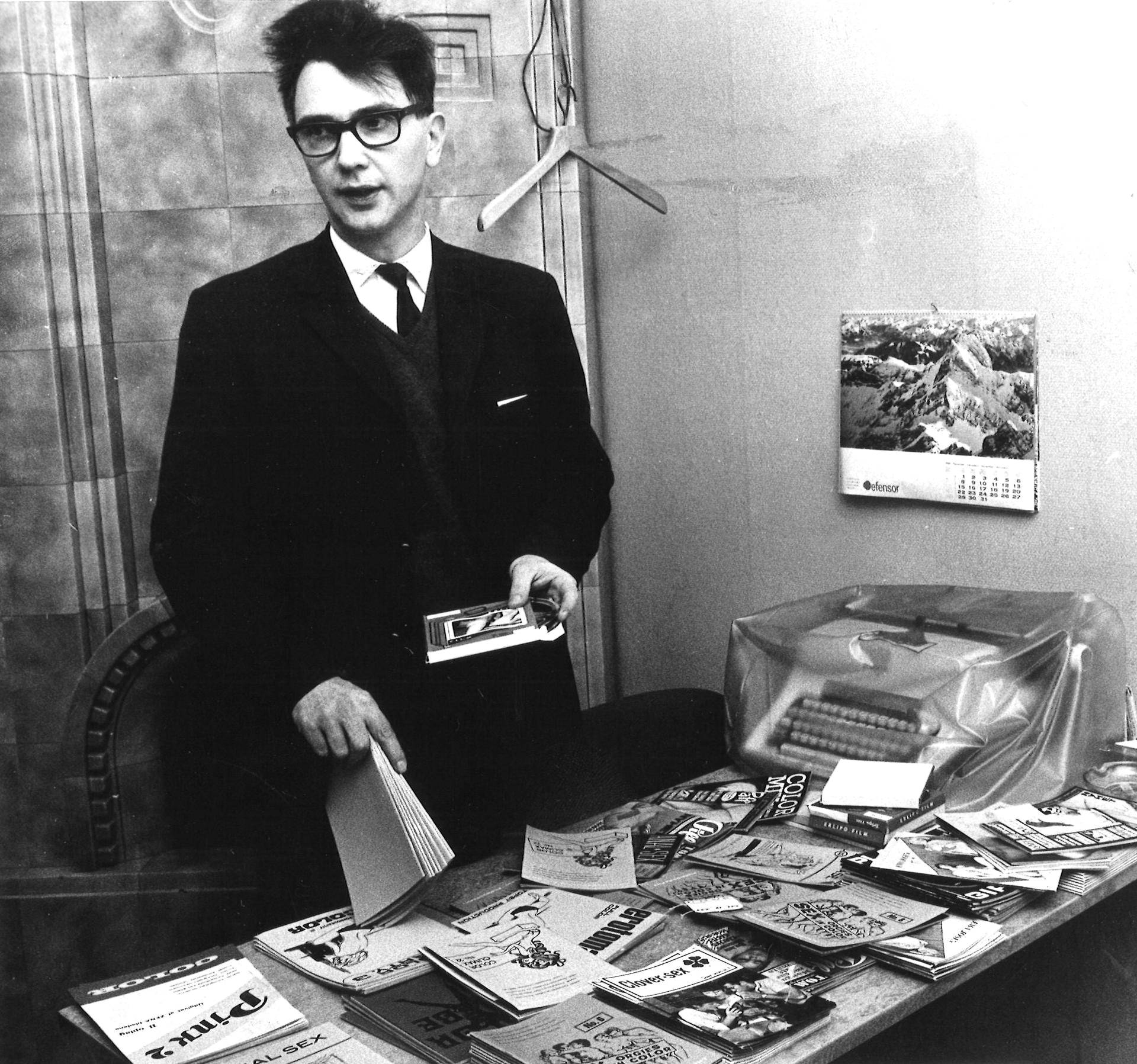 Photograph of inspector Aarre Panula presenting indecent (pornographic) literature that was confiscated by the Finnish customs. The lot weighed 60 kg and was packed in four coffins, smuggled to the country by a Swedish and a French man.